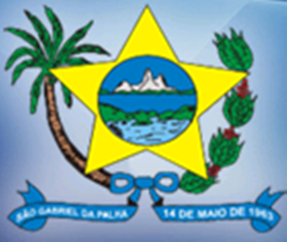 Coat of arms of São Gabriel da Palha, Espírito Santo, Brazil.